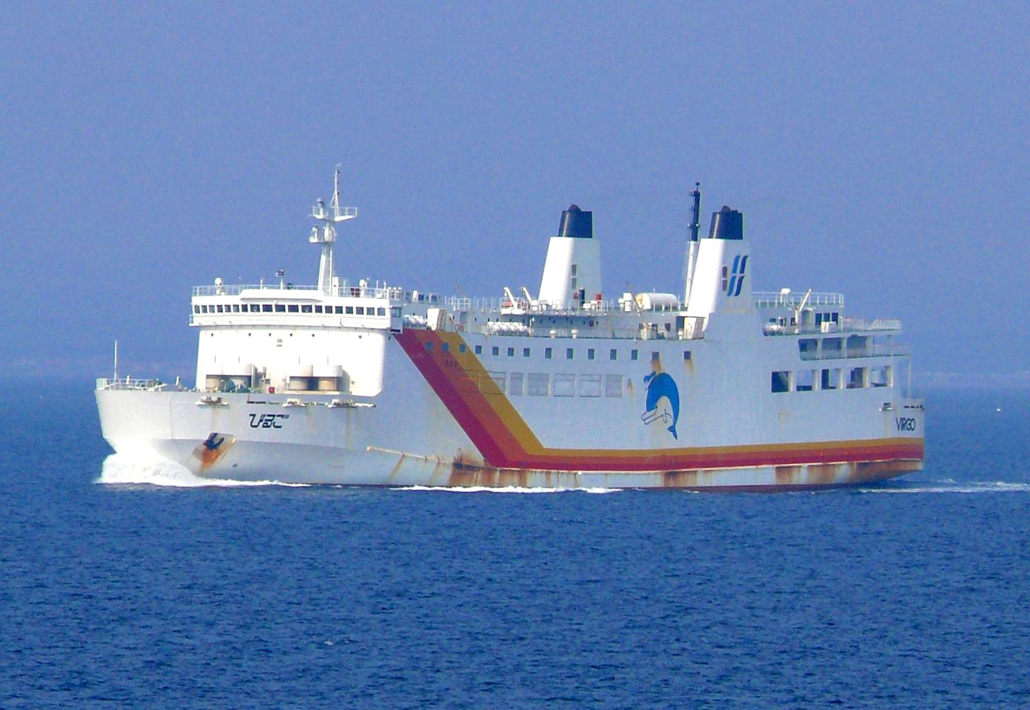 Higashi Nihon ferry Virgo(Japan). IMO number: 8921755 Callsign: JD2664